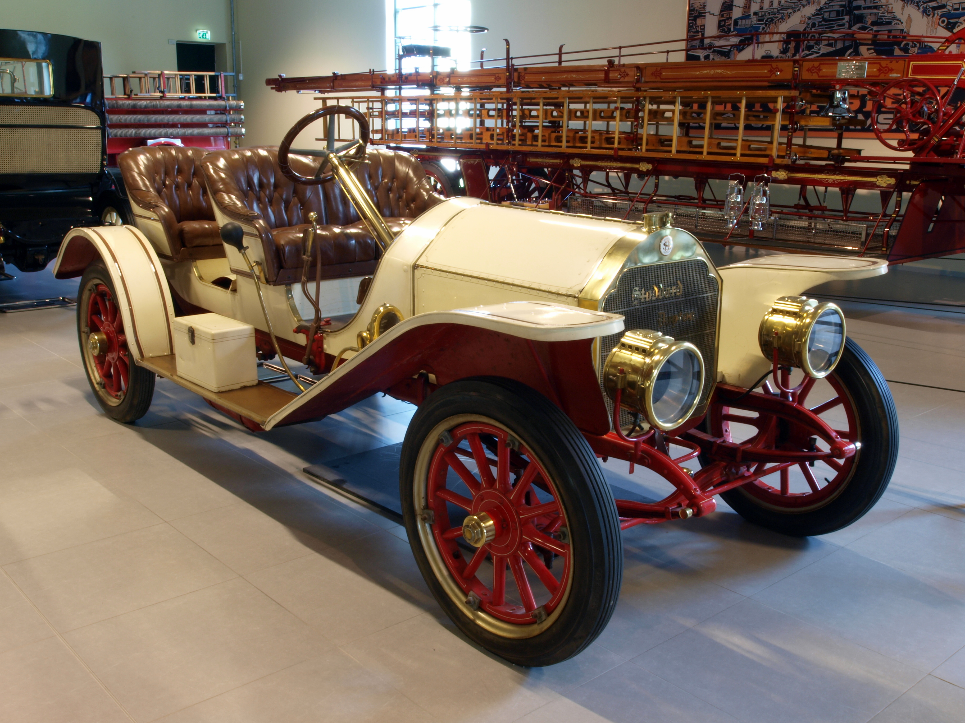 Photographed at the Louwman museum, The Netherlands.